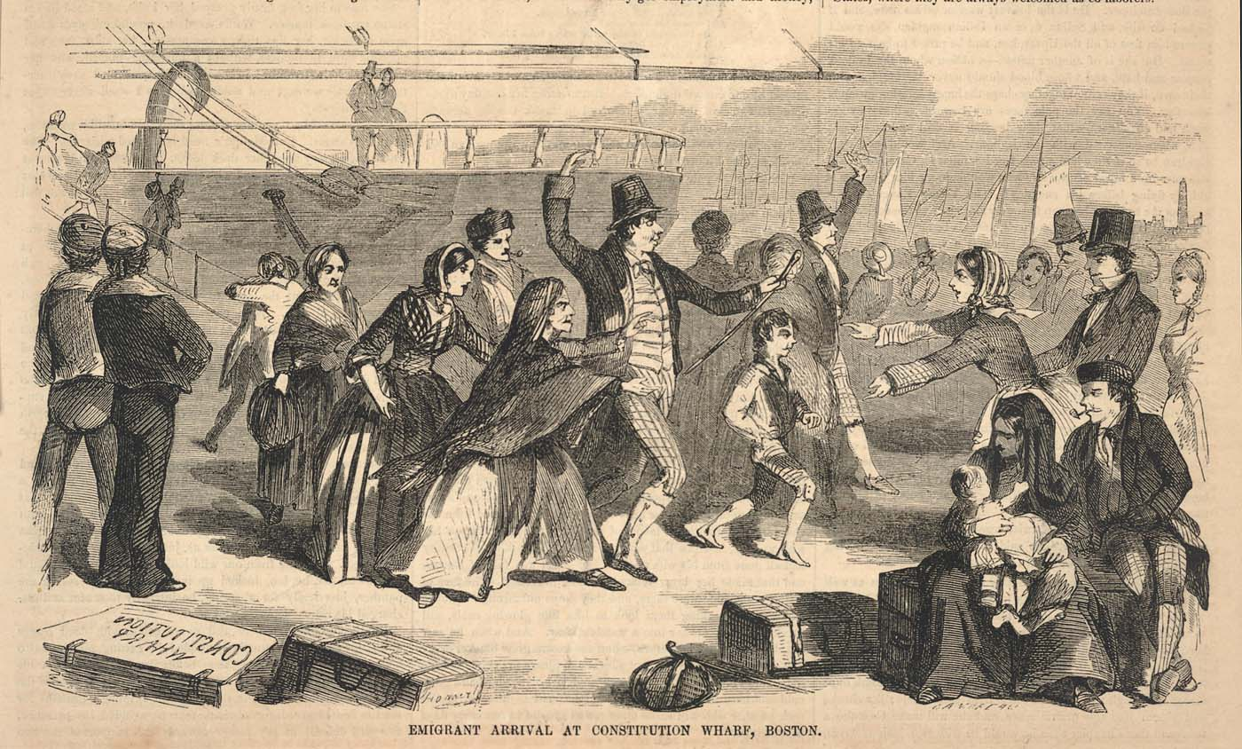 Emigrant Arrival at Constitution Wharf, Boston, from Ballou's Pictorial Drawing-Room Companion, October 31, 1857